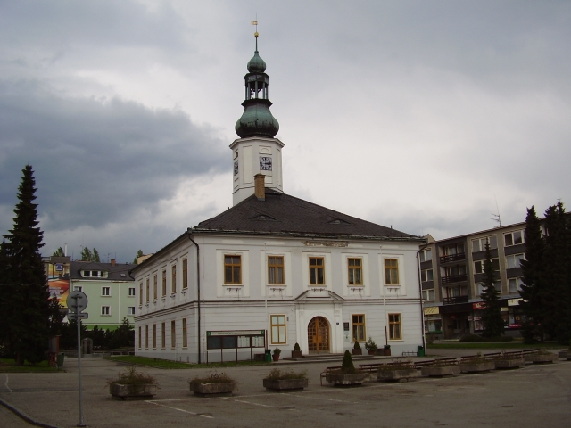 Town hall in Jeseník, Czech Republic